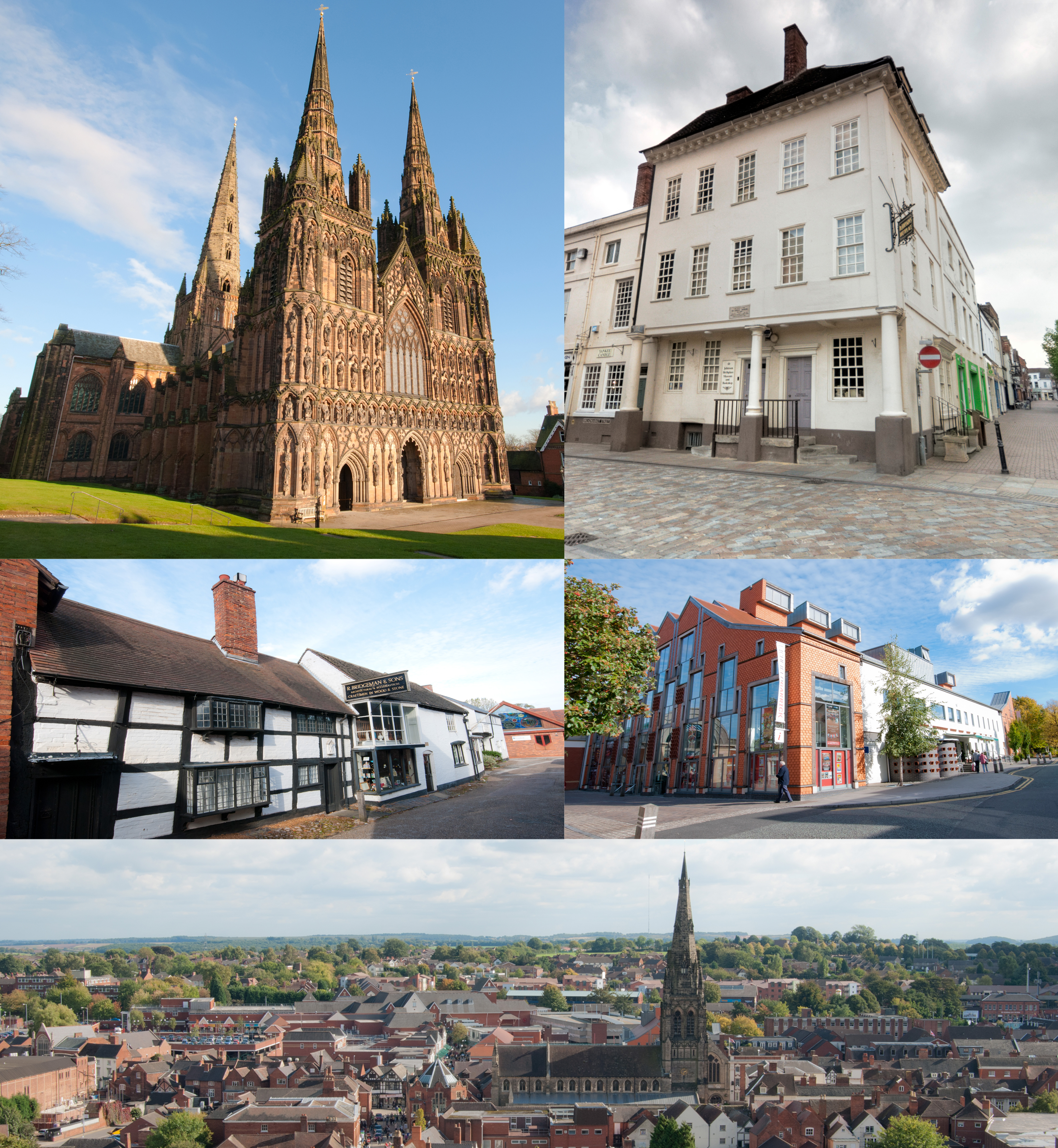 Left to Right: Lichfield Cathedral, Samuel Johnson Birthplace Museum, Quonians Lane Cottages, Garrick Theatre, View over the City.